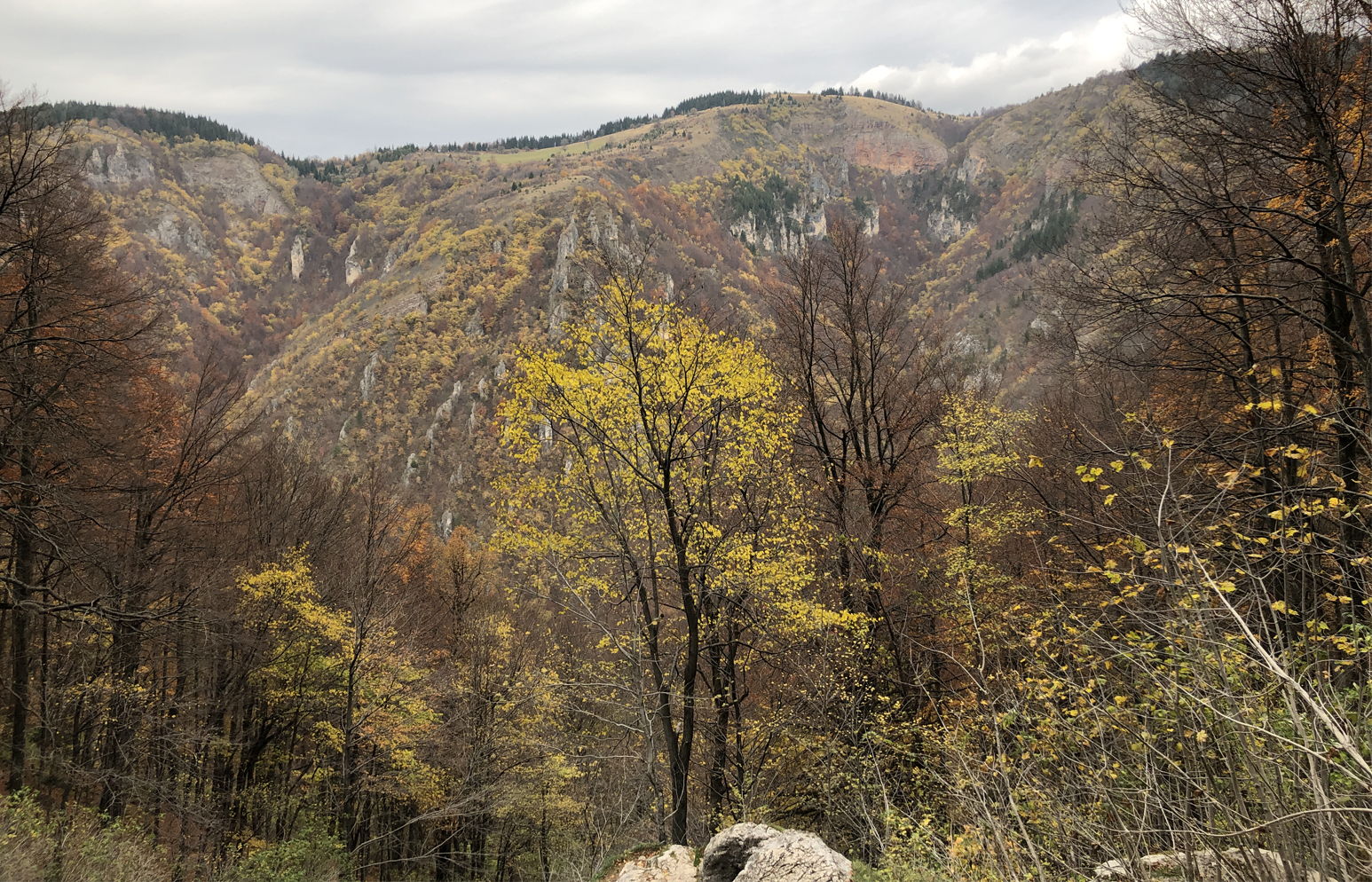 View from the waterfall during autumn